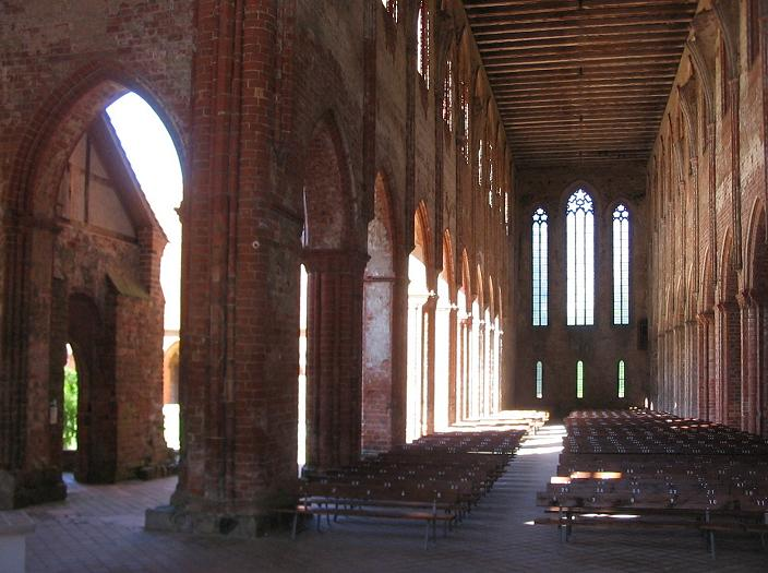 Cistercian Monastery Chorin, founded in 13th century by the together governing Ascanian Margraves of Brandenburg John I (1213–1266) and Otto III (ca. 1215–1267). Chorin is a municipality in the District Barnim, state Brandenburg, Germany.